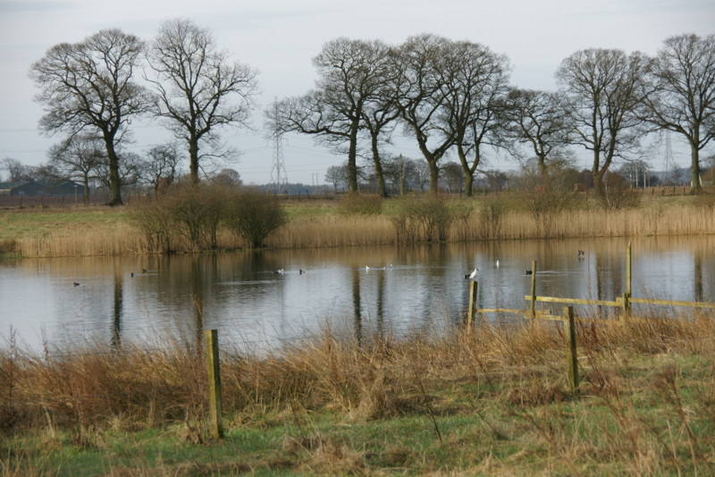 Monk Myre The west end of the larger of the two lochs.